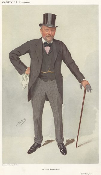 Caricature of Lord Barrymore. Caption read "An Irish Landowner".